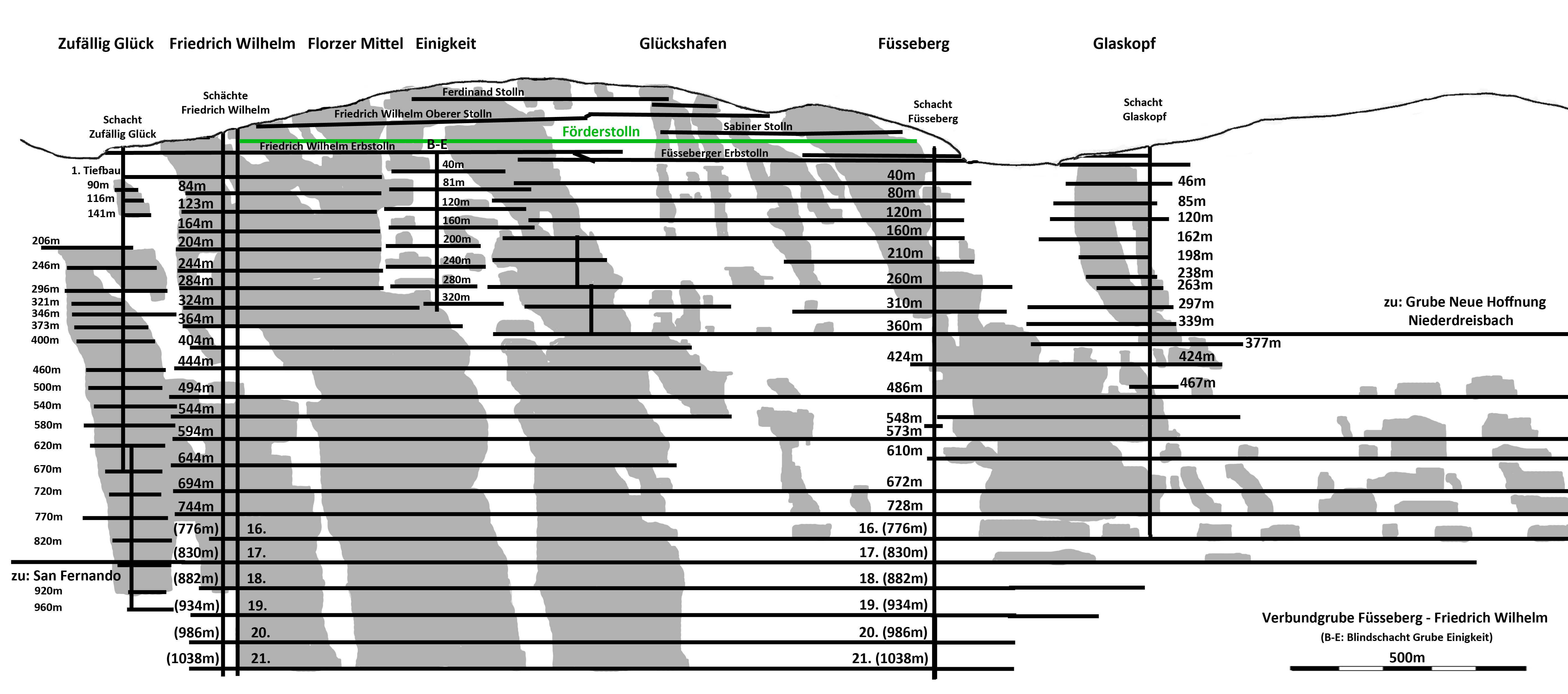 Floor level plan of the mine Füsseberg - Friedrich Wilhelm, arround 1962. Regions coloured grey are mining areas (iron ore).